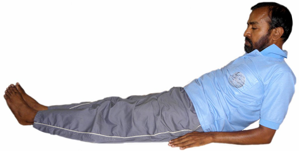 Opposite Balancing Bear pose2